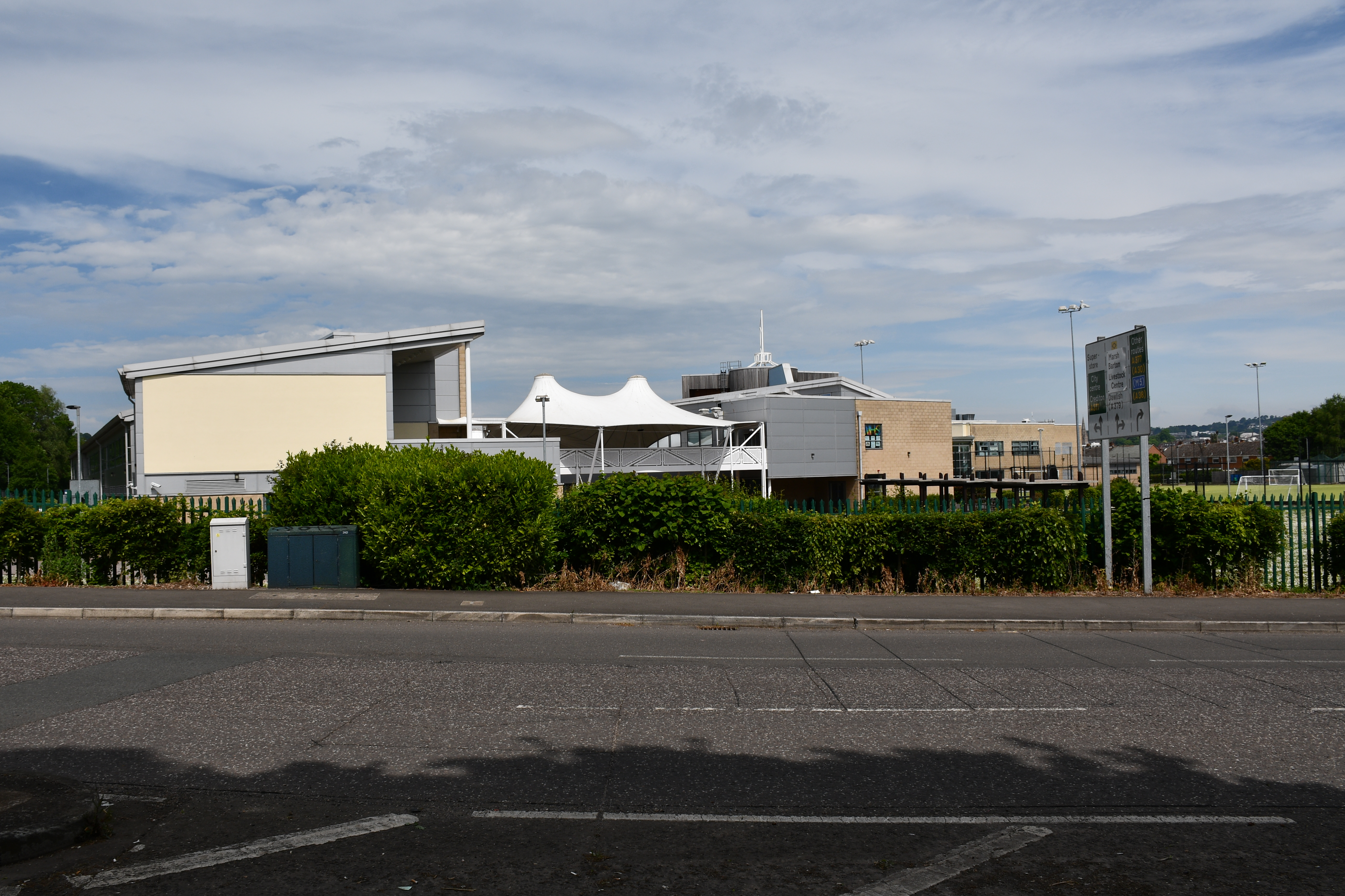 West Exe Technology College